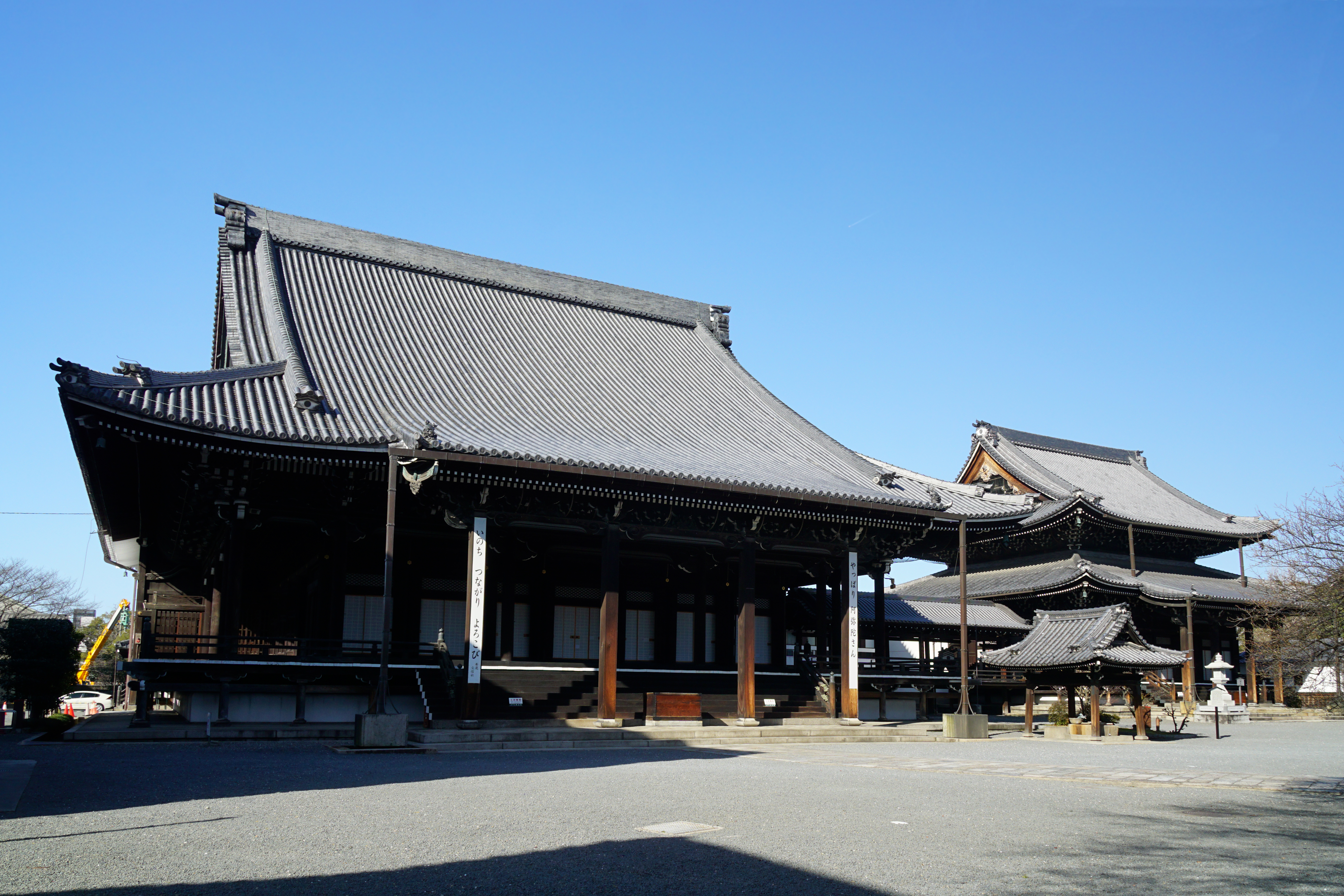 Kōshō-ji in Kyoto, Kyoto prefecture, Japan